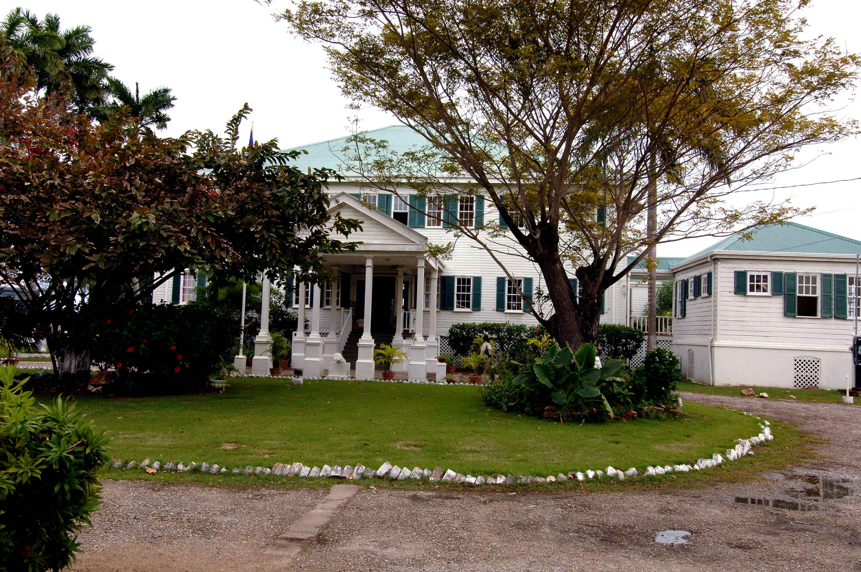 HOUSE OF CULTURE – FORMERLY GOVERNMENT HOUSE WHERE THE THE BRITISH GOVERNOR GENERAL LIVED AND WHERE THE FLAG OF INDEPENDENCE WAS RAISED